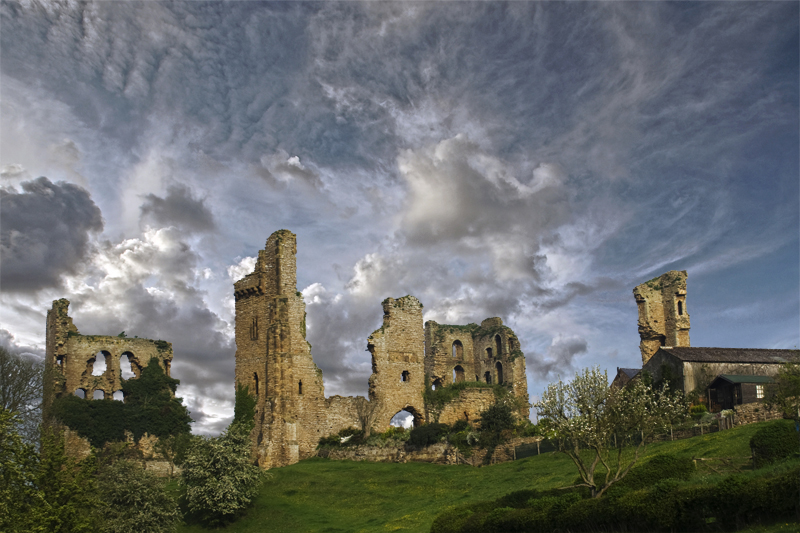 Sheriff Hutton Castle taken from the eastern side of the castle.